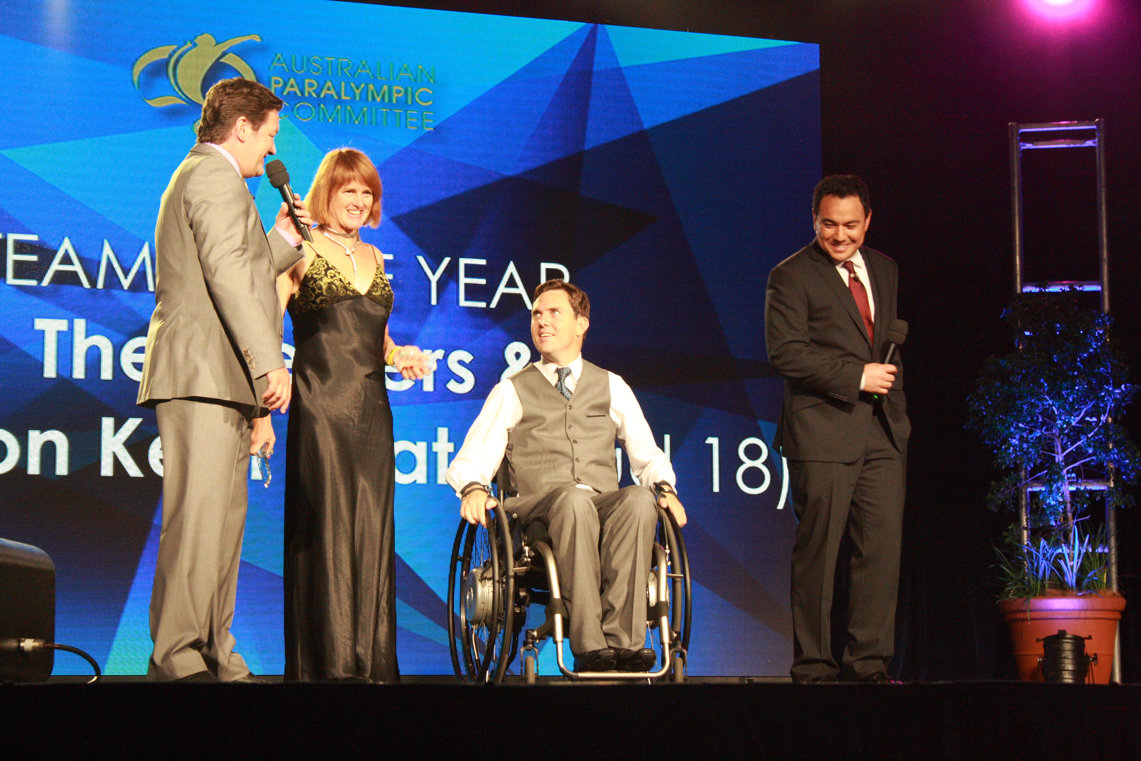 Australian Paralympian of the Year 2012 ceremony at the Hordern Pavilion, Sydney, Australia.